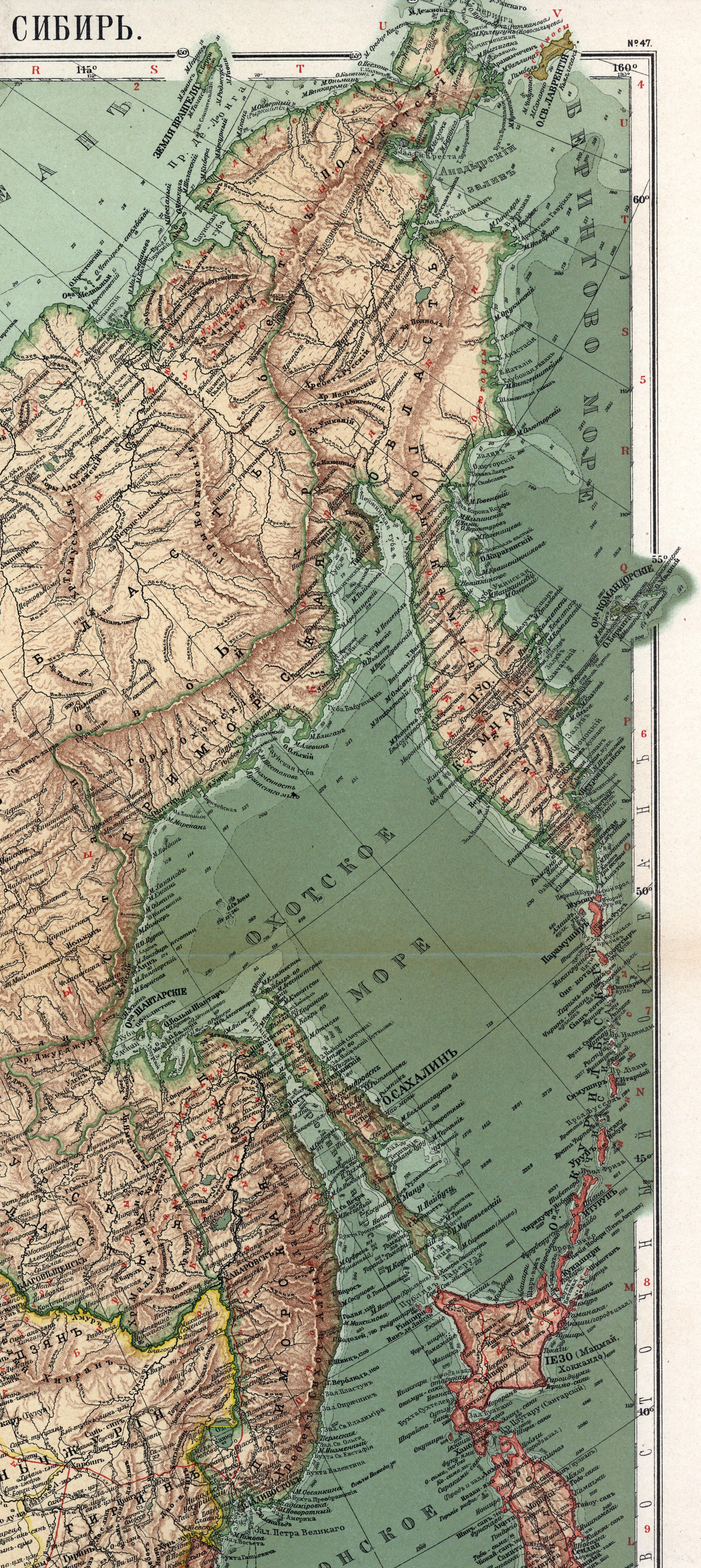 Map of Eastern Siberia - Prymorskaya Oblast (Russian Empire)